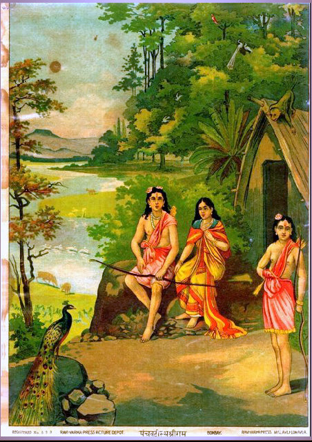 From Baroda Art Gallery